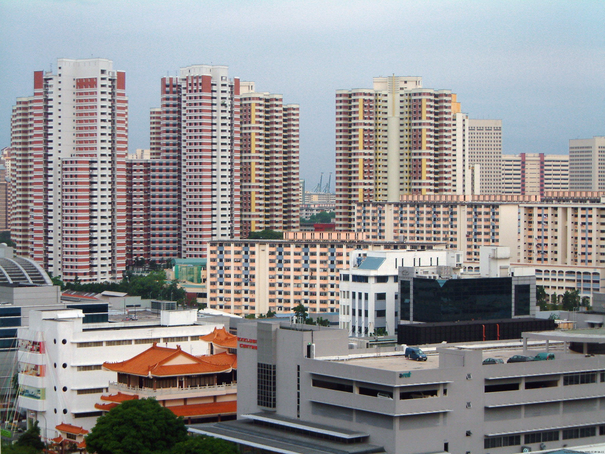 Skyline of Redhill (Bukit Merah) estate in Singapore Redhill, Republic of Singapore Img by Calvin Teo [June 2006]